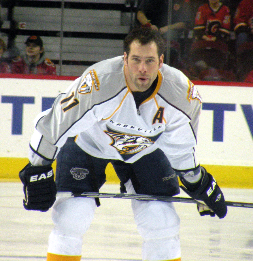 Nashville Predators forward David Legwand prior to a National Hockey League game against the Calgary Flames.